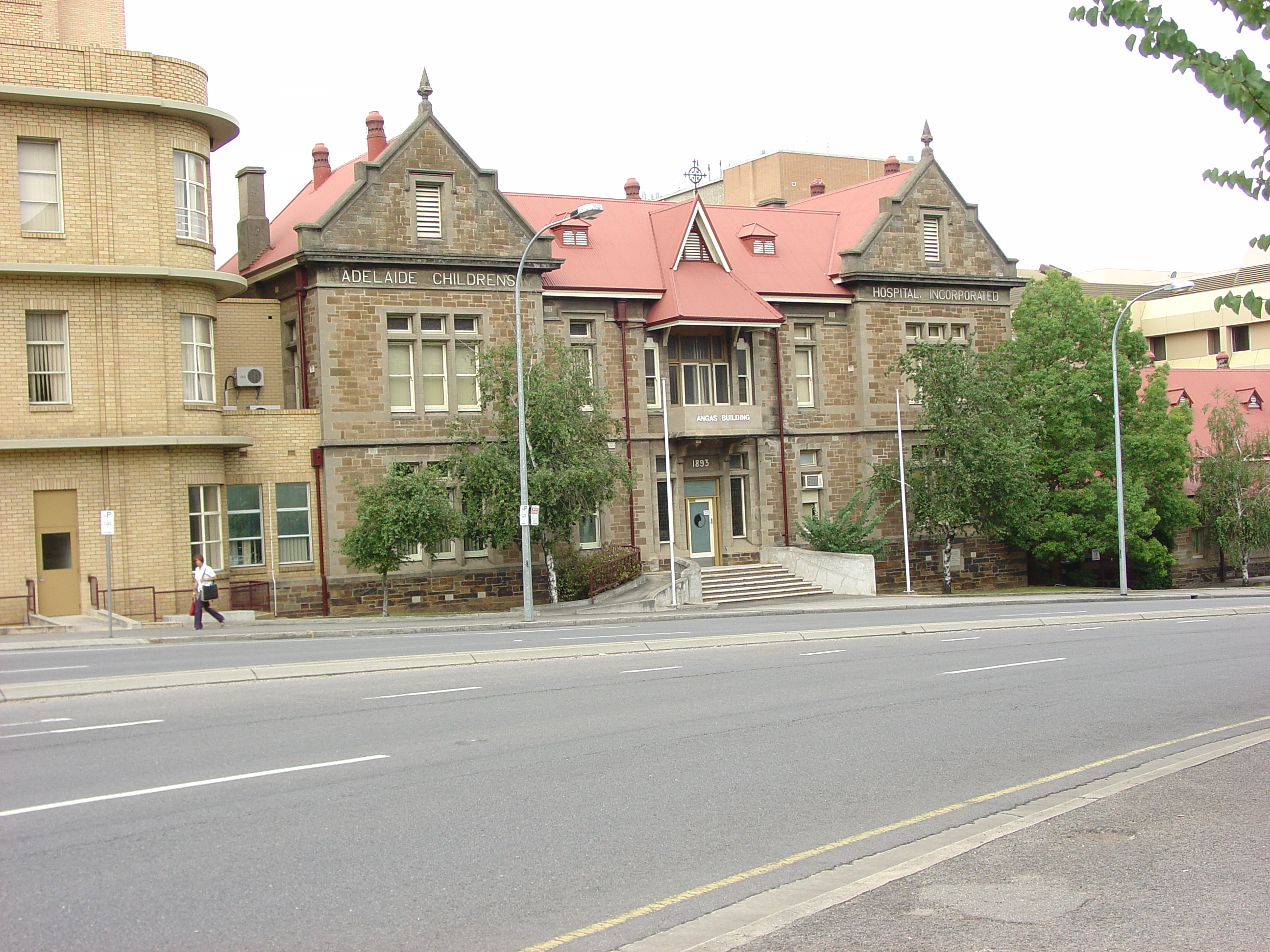 Angas Building, Women and Children's Hospital, Adelaide. Taken 6:44pm 3 February 2005 with a Sony Mavica. Taken by Alex Sims.